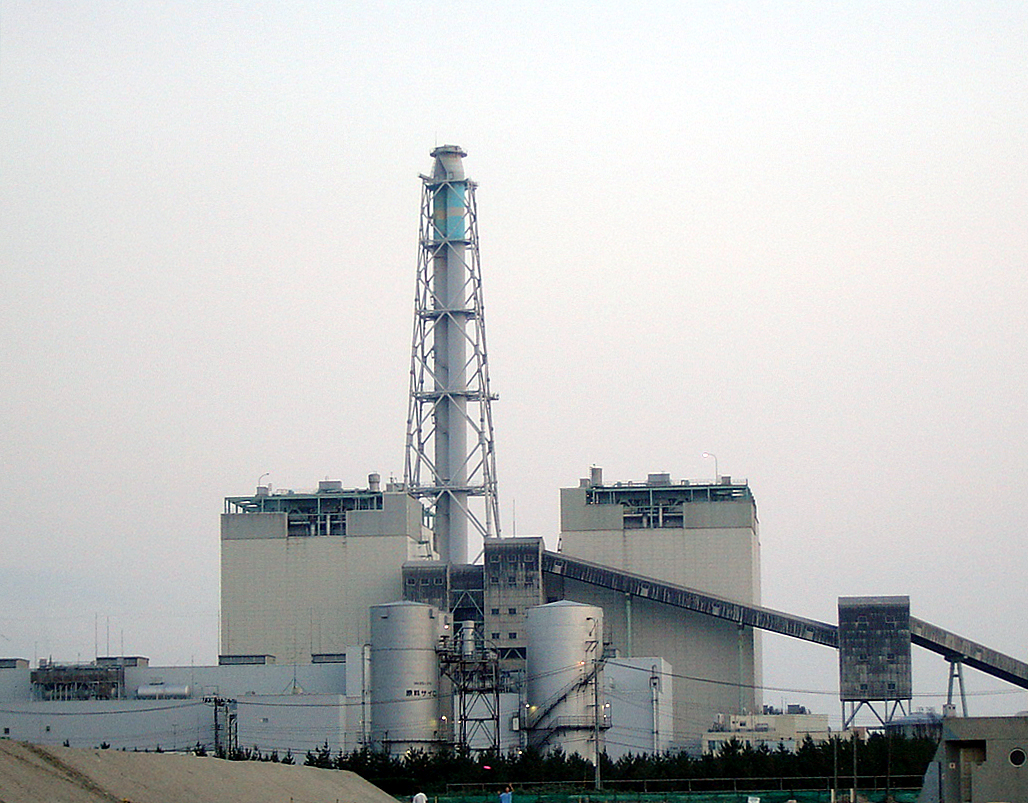 Sakata Kyodo Powerplant at Sakata, Yamagata.